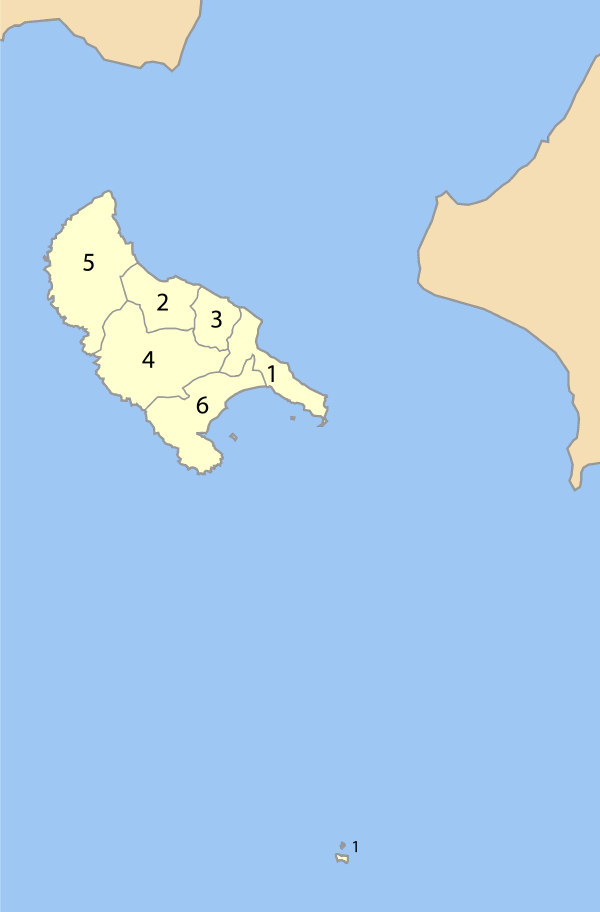 Map of Zakynthos prefecture (Greece) with administrative divisions (municipalities and communities) numbered in alphabetical order (in greek). Legend: 1. Δήμος Ζακυνθίων - Zakynthos 2. Δήμος Αλυκών - Alykes 3. Δήμος Αρκαδίων - Arkadii 4. Δήμος Αρτεμισίων - Artemisia 5. Δήμος Ελατίων - Elatia 6. Δήμος Λαγανά - Laganas